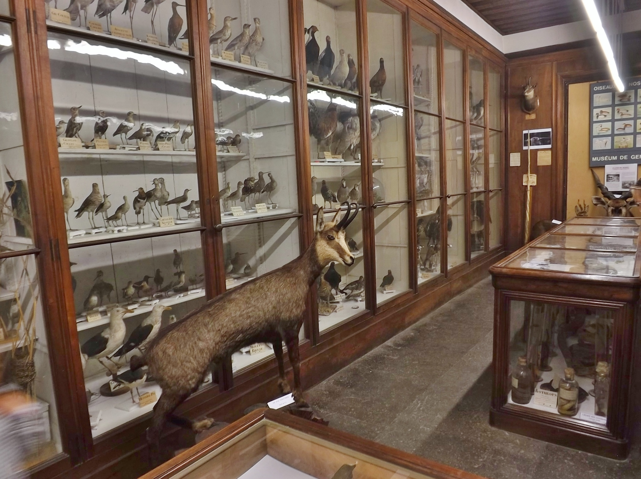 Collections exposed in the zoology room of the Chambéry Natural history museum, in Savoie, France.